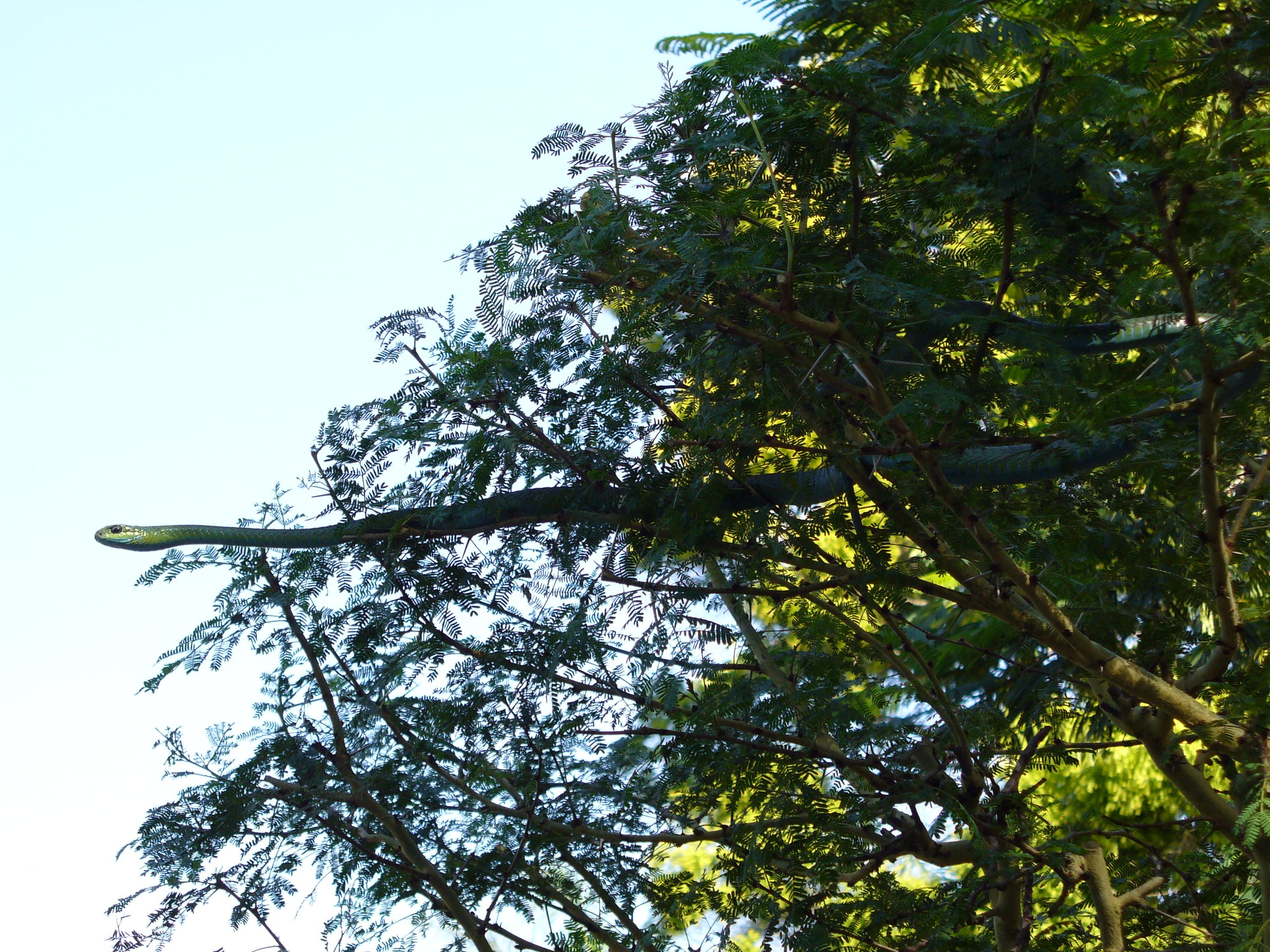 Adult male Southern African Tree Snake (or "Boomslang"), drop-for-drop the most venomous animal on the continent. Picture taken at 09h35 on Saturday, 28 April 2012, near Shelly Beach on the warm South Coast of KwaZulu-Natal in South Africa. He barely moved, and definitely spotted me long before I noticed him - almost directly overhead - in a small indigenous thorn tree.